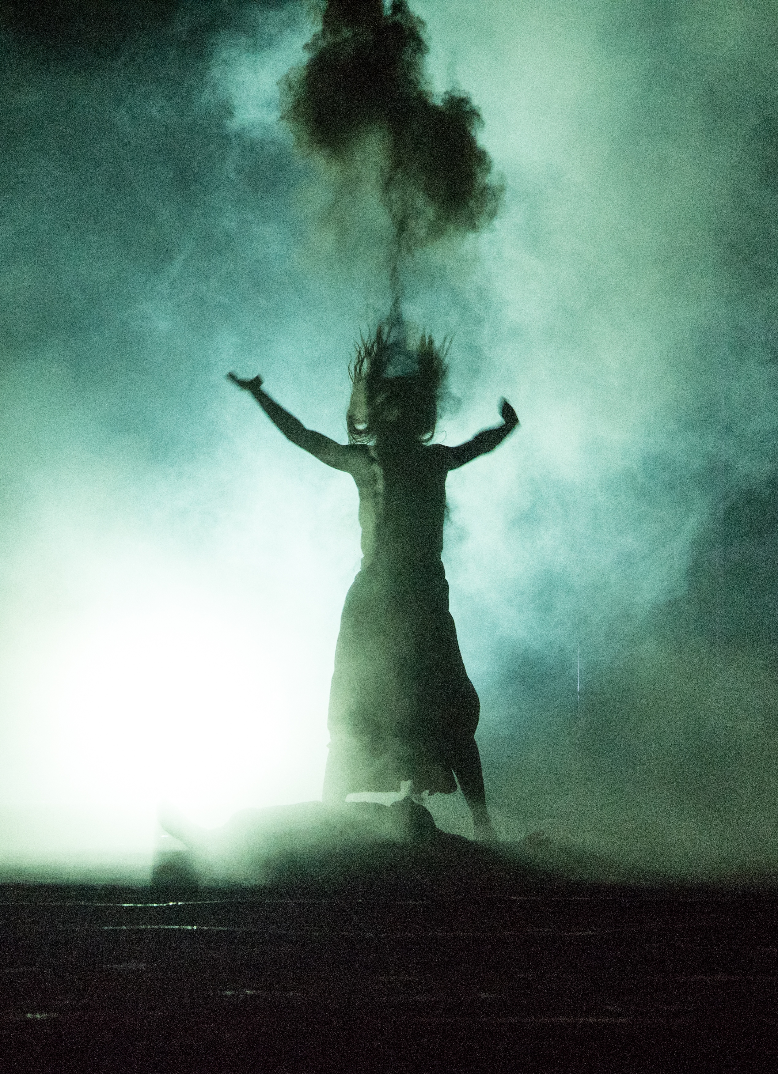 Antigone is burying her brother Polynices by throwing ashes in the air, with Aenne Schwarz as Antigone, Director: Jette Steckel, Burgtheater, Vienna 2015